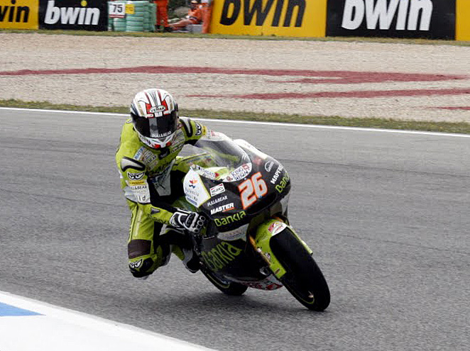 Adrian Martin 2011 Estoril